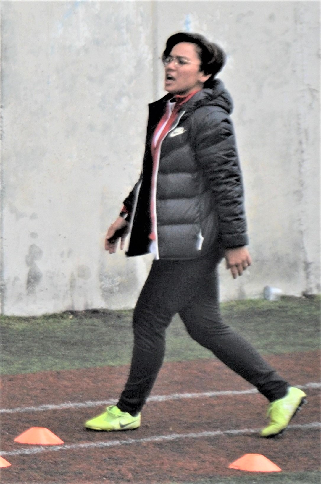 Aslı Canan Sabırlı of ALG Spor in the 2019-20 Turkish Women's First Football League